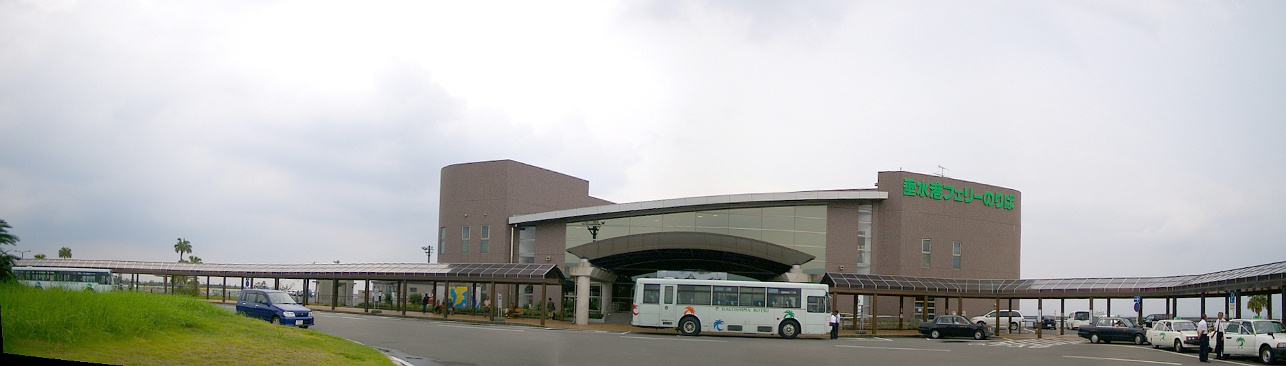 The Port Tarumizu (Kagoshima) Ferry terminal